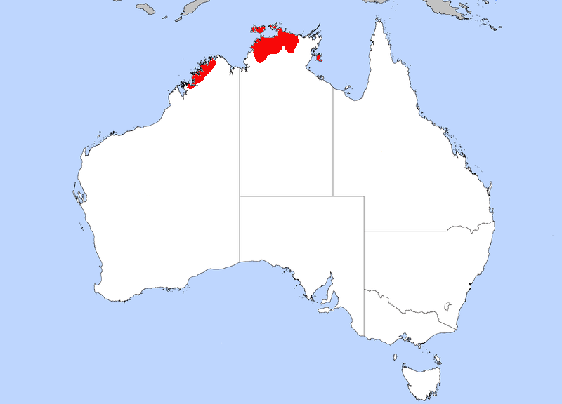 Global distribution of the Rainbow Pitta (Pitta iris). Also includes Australian state borders.